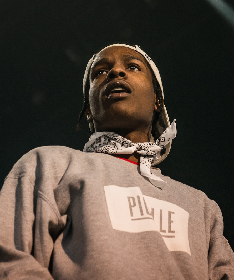 ASAP Rocky at The Come Up Show's 2013 Under the Influence Tour in Toronto